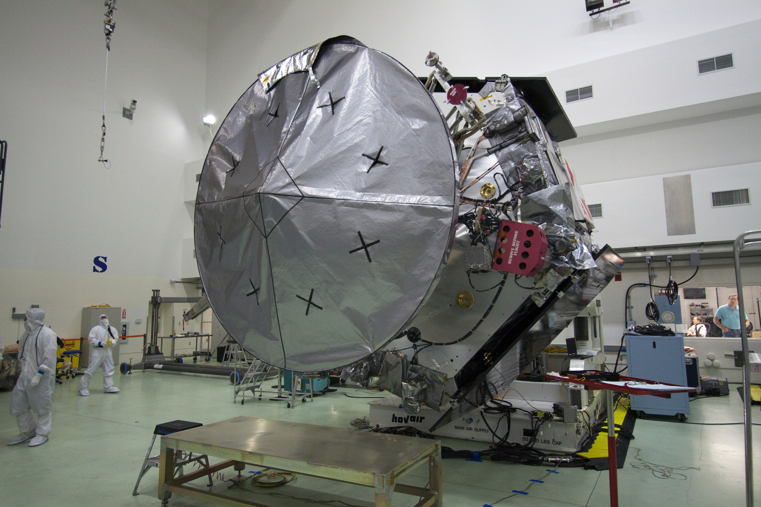 CAPE CANAVERAL, Fla. -- Technicians at Astrotech's payload processing facility in Titusville, Fla. have installed the high-gain antenna to NASA's Juno spacecraft. Juno is scheduled to launch aboard an Atlas V rocket from Cape Canaveral, Fla. Aug. 5.The solar-powered spacecraft will orbit Jupiter's poles 33 times to find out more about the gas giant's origins, structure, atmosphere and magnetosphere and investigate the existence of a solid planetary core. For more information visit